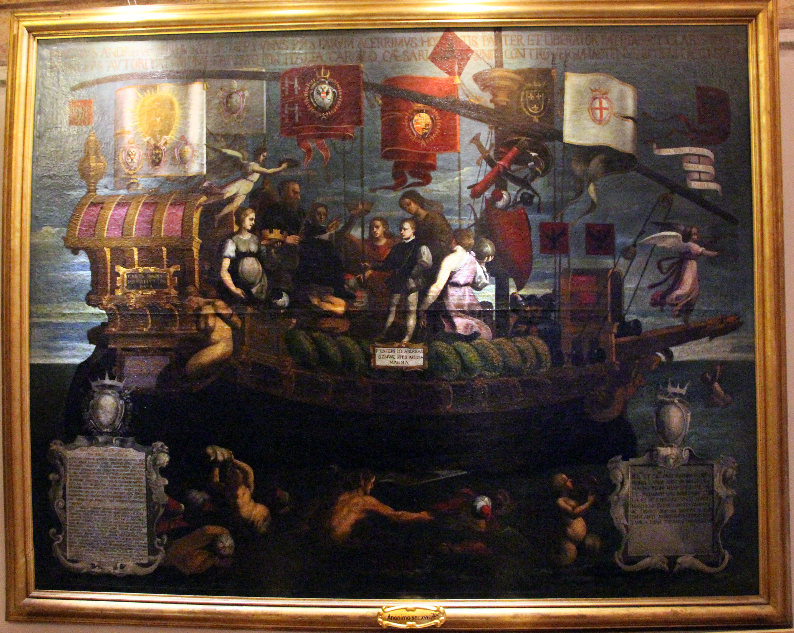 Interior of the Villa del Principe (Genoa) - Hall of the Roman Charitas